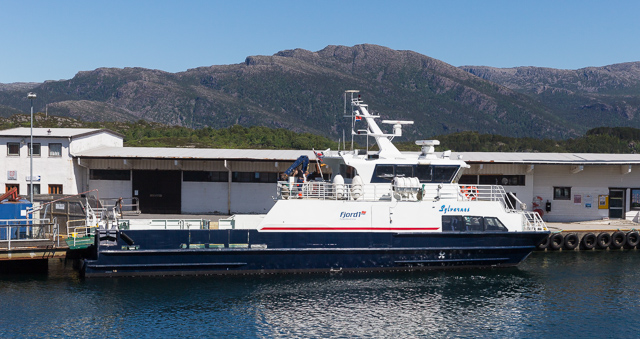 MF Sylvarnes is docked at Florø harbour in 2014.